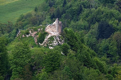 Castle ruine nearby Asuel, Switzerland